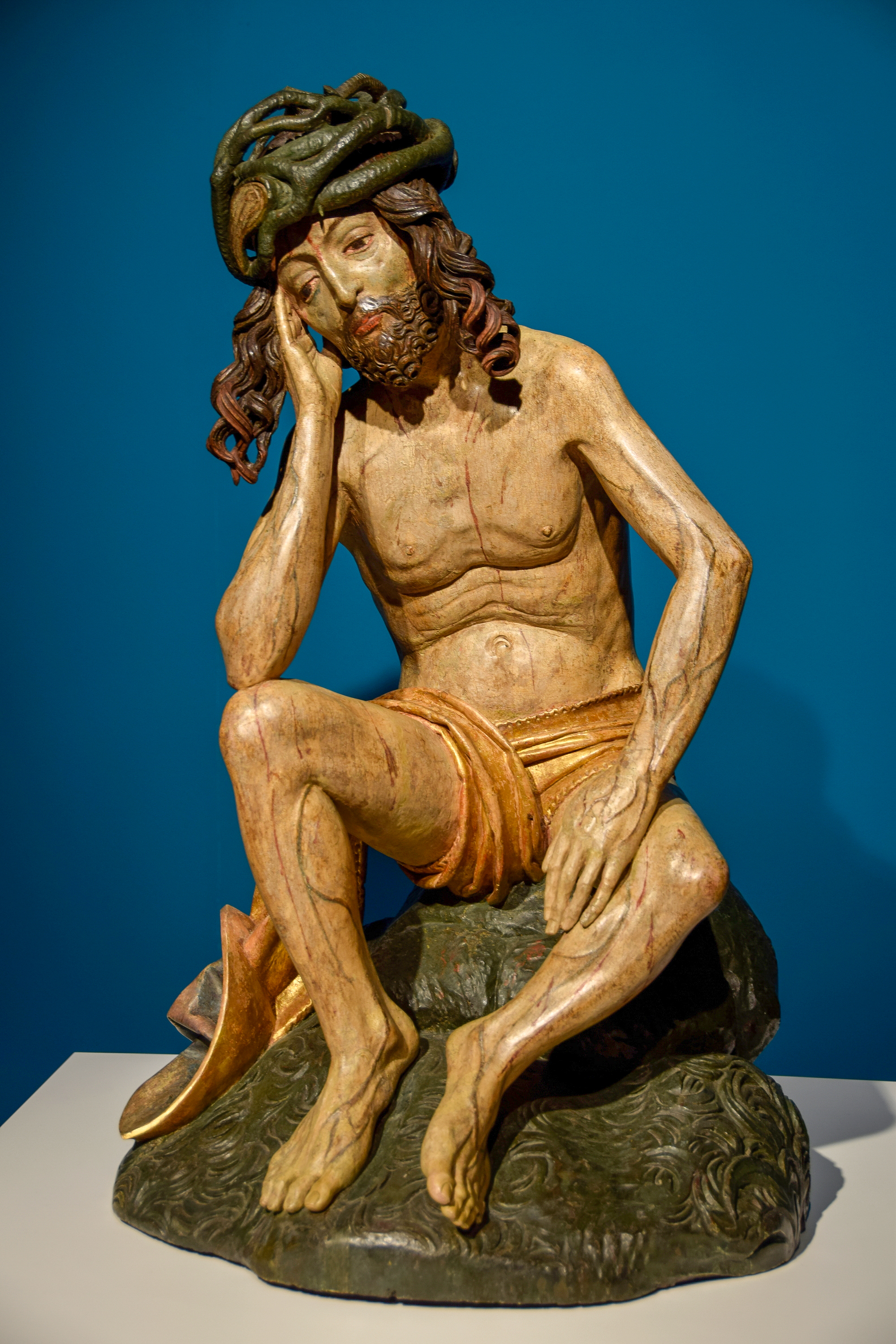 The statue Meditating christ from Prešov by Paul of Levoča, on display in Bratislava.